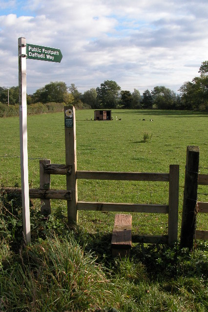 Daffodil Way, Dymock. Every spring the Dymock area blooms with wild daffodils and many people follow the Daffodil Way. In this area there are also two Poets Ways to celebrate the poets who lived in the Dymock area before the First World War.